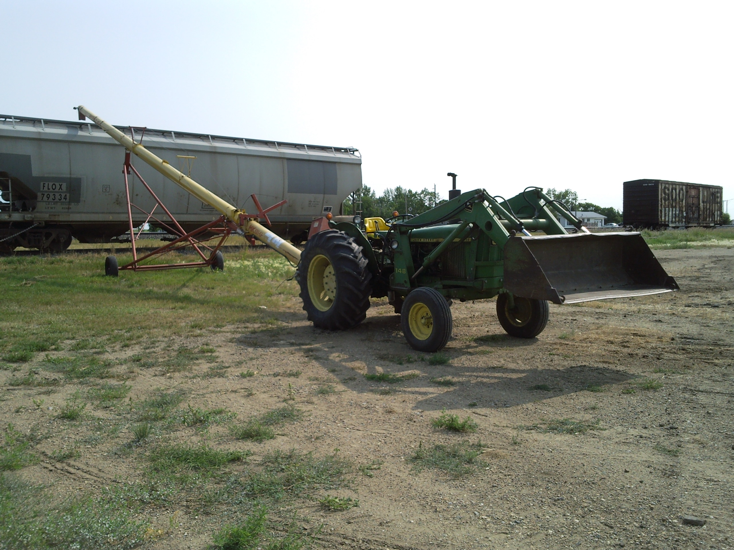 John Deere tractor, mobile grain "elevator" (screw conveyor), and grain car; taken in Milestone, Saskatchewan, Canada.